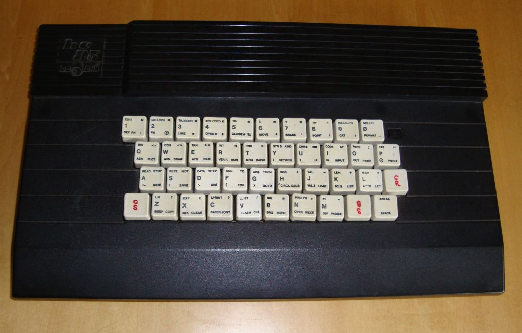 HC85 in plastic carcass. Probably a HC85+.